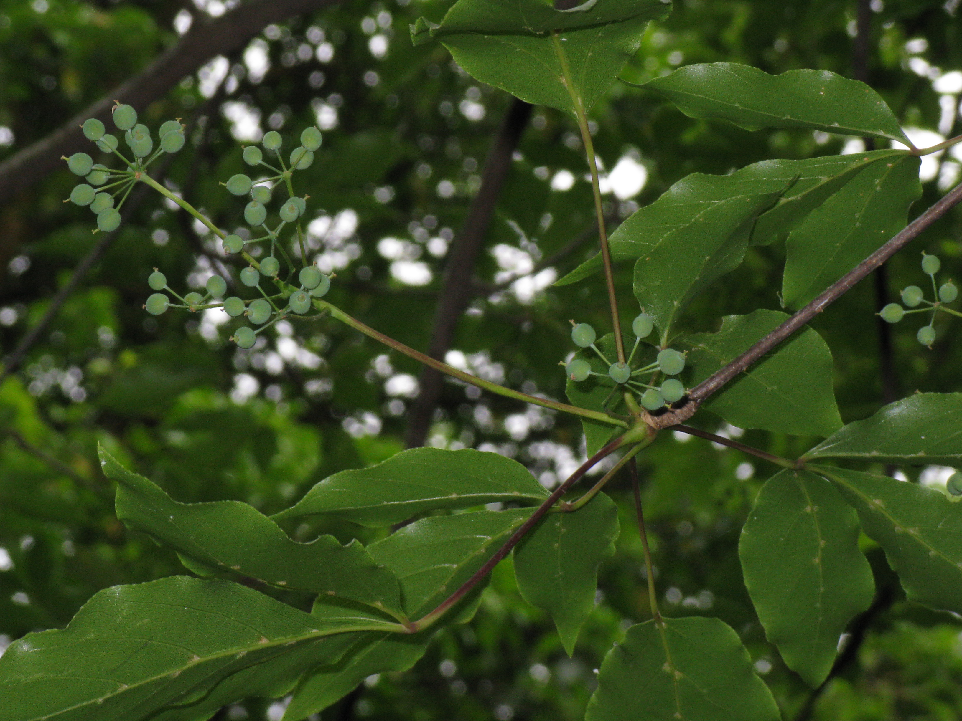 Gamblea innovans